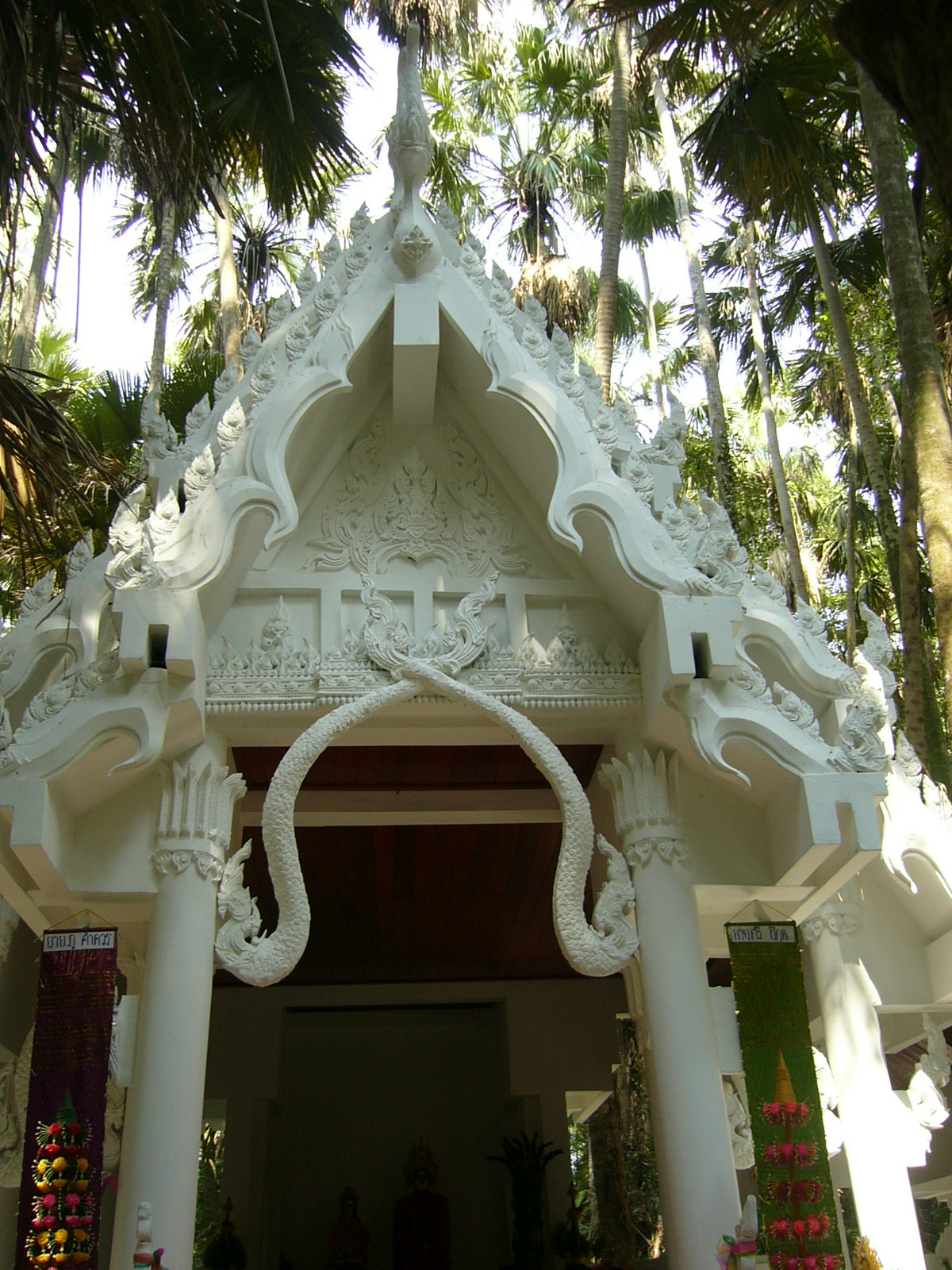 A shrine on the island of Wat Kham Chanot, Udon Thani province, Thailand